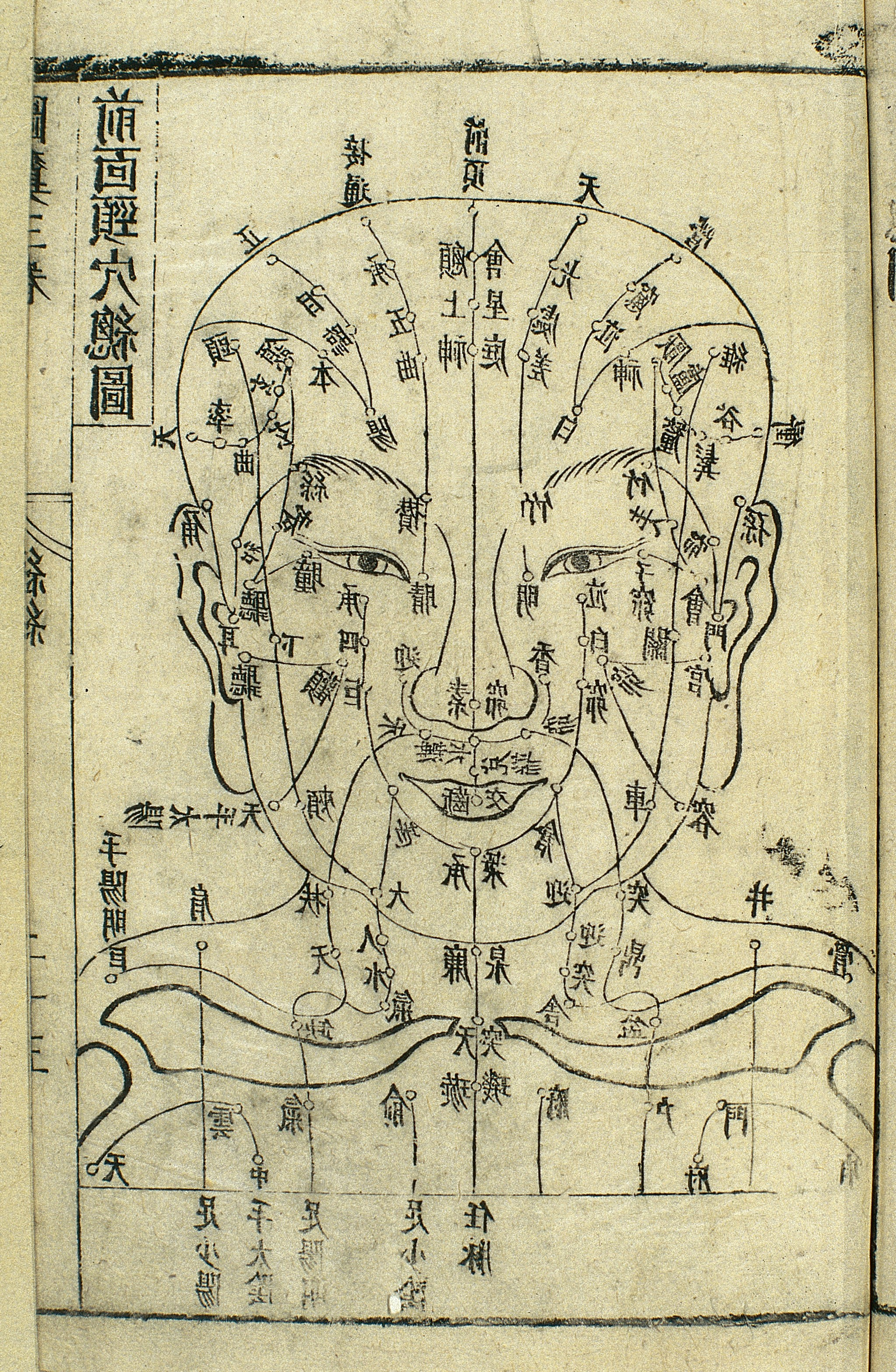 Labelled diagram of the acu-moxa points at the front of the head and neck, showing the paths of therenmai(Director Vessel -- commonly translated as Conception Vessel),shenmai(Kidney Vessel), footshaoyang(Lesser Yang), foottaiyang(Greater Yang), footyangming(Yang Brightness), footshaoyin(Lesser Yin), handshaoyang(Lesser Yang), handtaiyang(Greater Yang), handyangming(Yang Brightness), and handshaoyin(Lesser Yin) channels. Chinese woodblock print from a volume dated 'Tianqi reign period of Ming Dynasty' (1621-1627). Wellcome Images Keywords: Head; Acupuncture Therapy; Acupuncture Points; Acupuncture chart; Acu-moxa